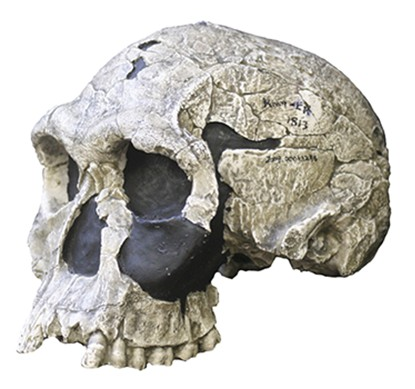 Skull of Homo habilis